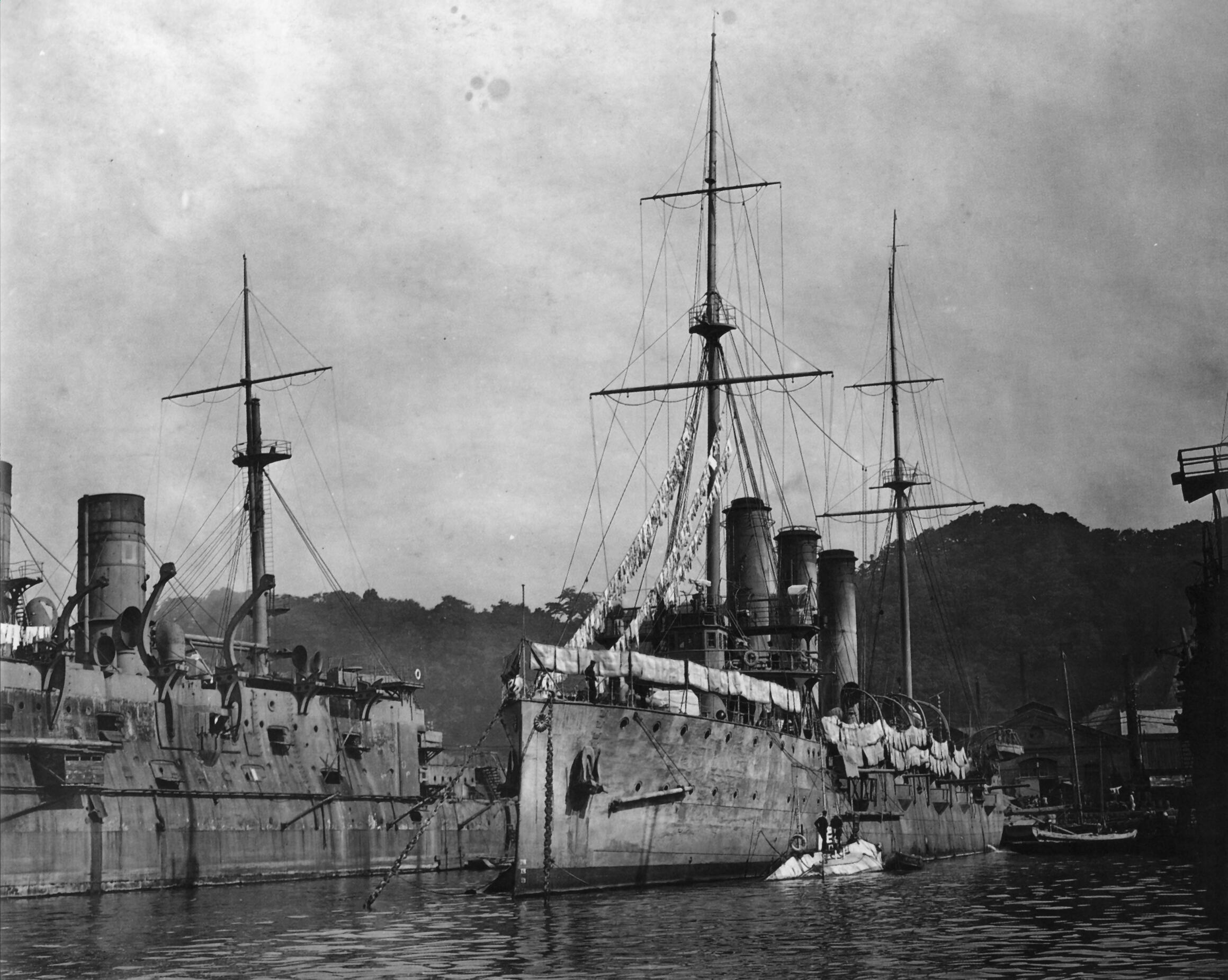 Imperial Japanese battleship Suou (left) and cruiser Otowa in Yokosuka, 14 October 1906.